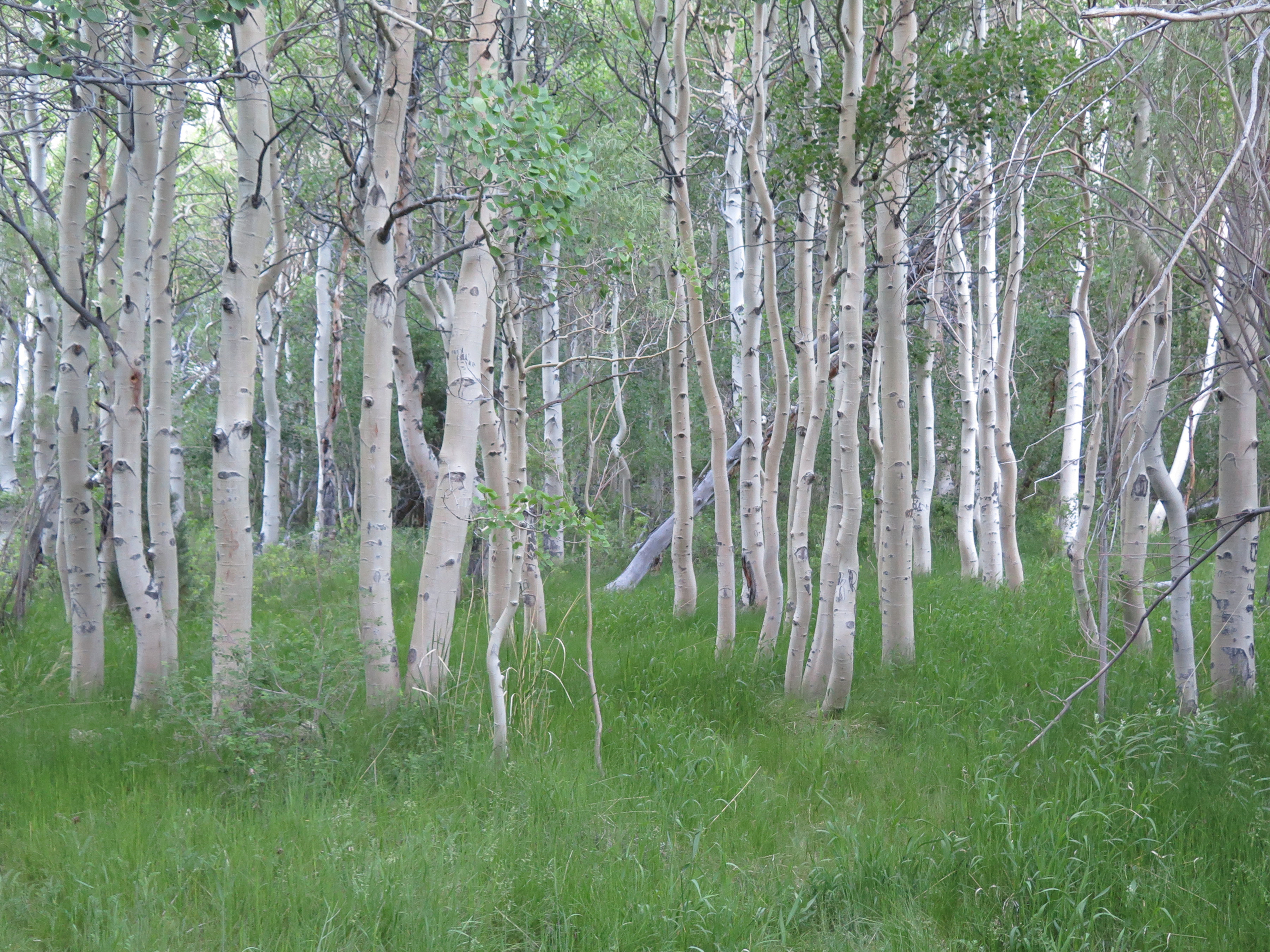 Quaking aspen (Populus tremuloides) thick grove of woods with pale trunks. By inlet of Convict Lake, Sierra Nevada CA.